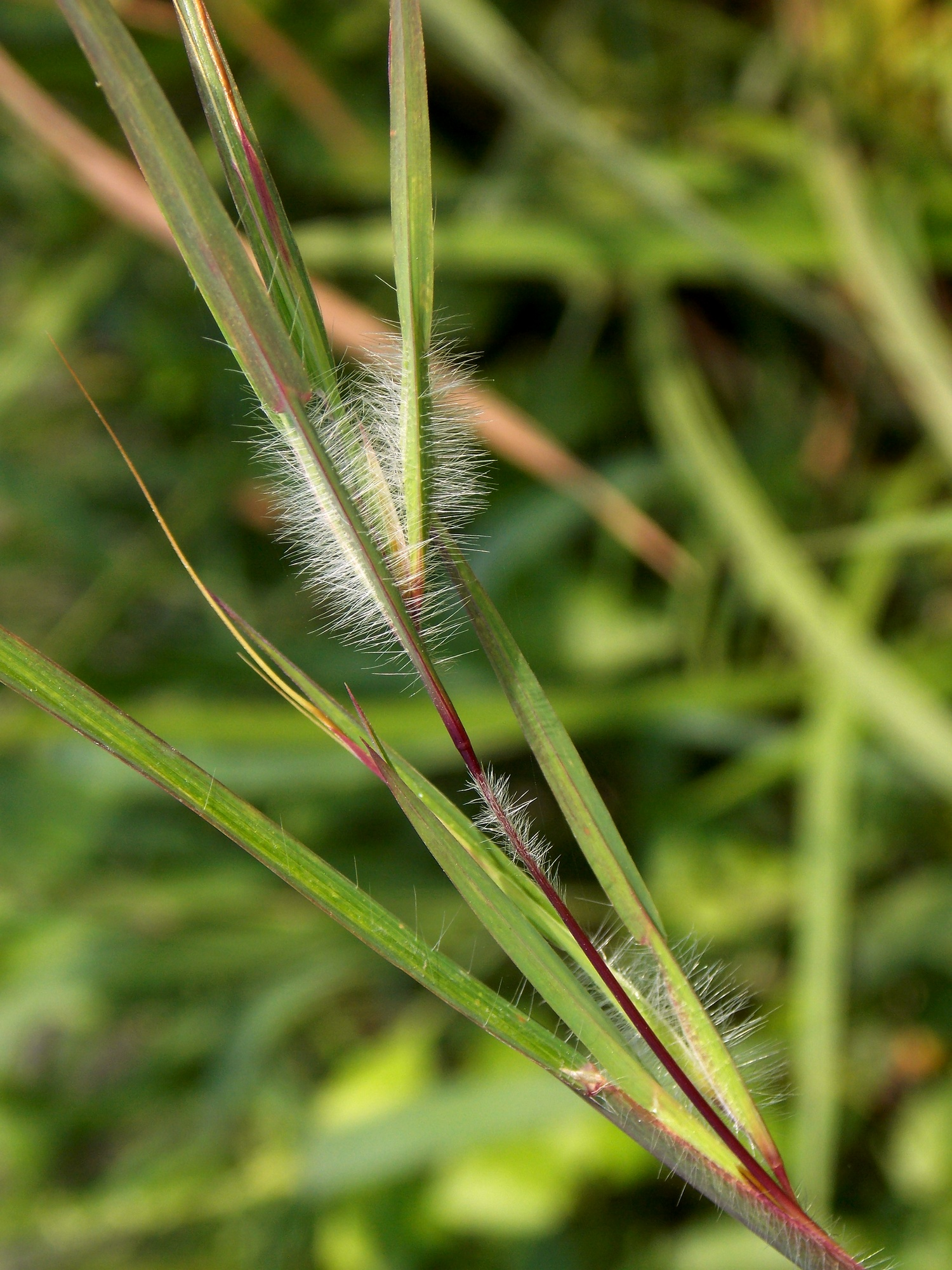 Themeda arguens, from Bogor, West Java, Indonesia.